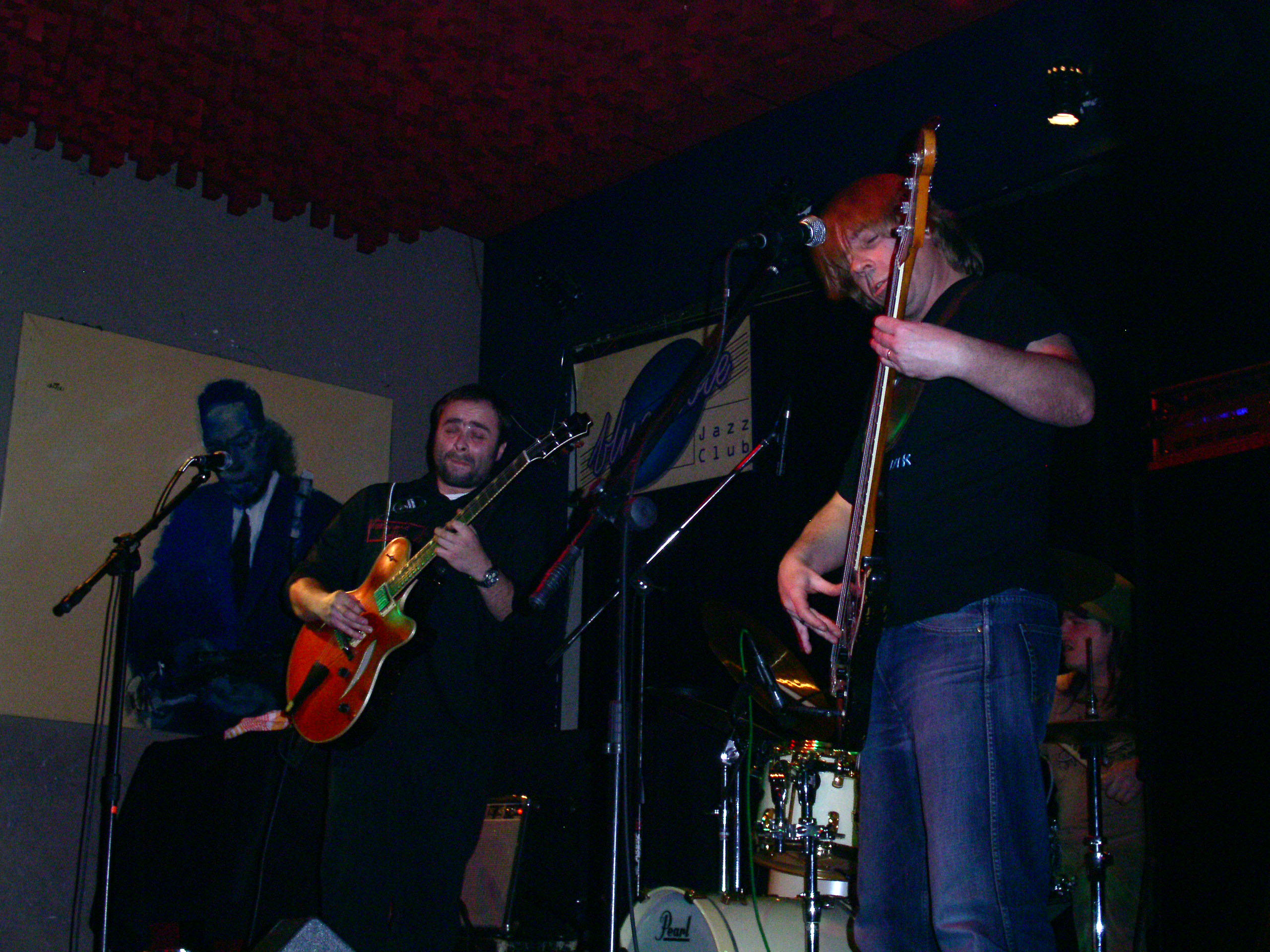 minus 123 min.